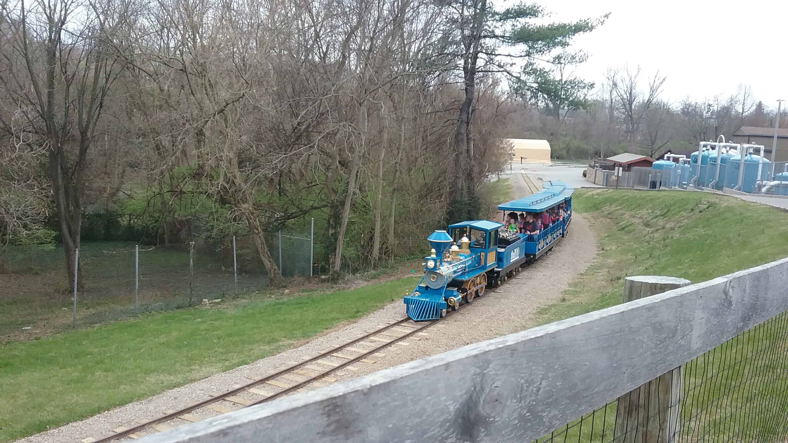 The image of the Louisville Zoo train was taken on March 24, 2017